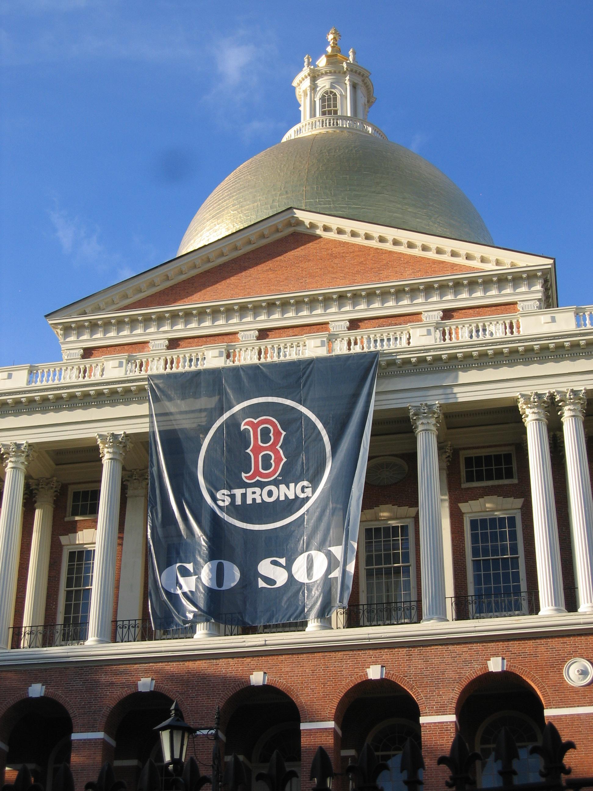 The Massachusetts State House on October 26, 2013, displaying a banner in honor of the Boston Red Sox's 2013 World Series appearance. Taken in Boston with a Canon Powershot S50 digital camera.